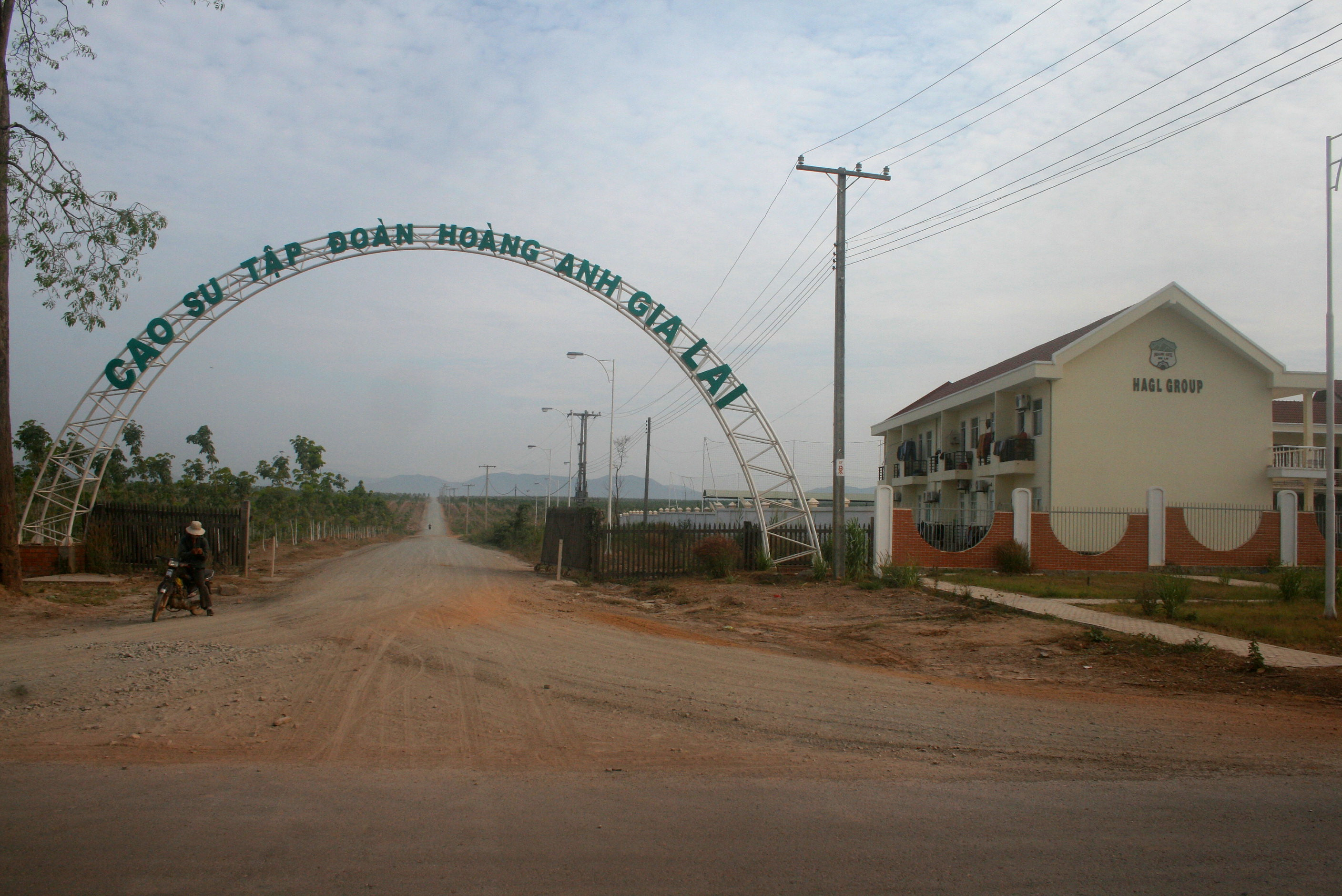 rubber plantation in Attapeu province, Laos operated by Hoang Anh Gia Lai Group